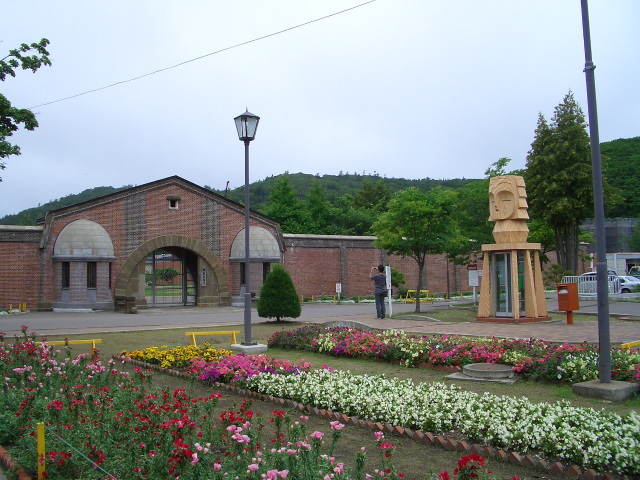 Abashiri Prison.